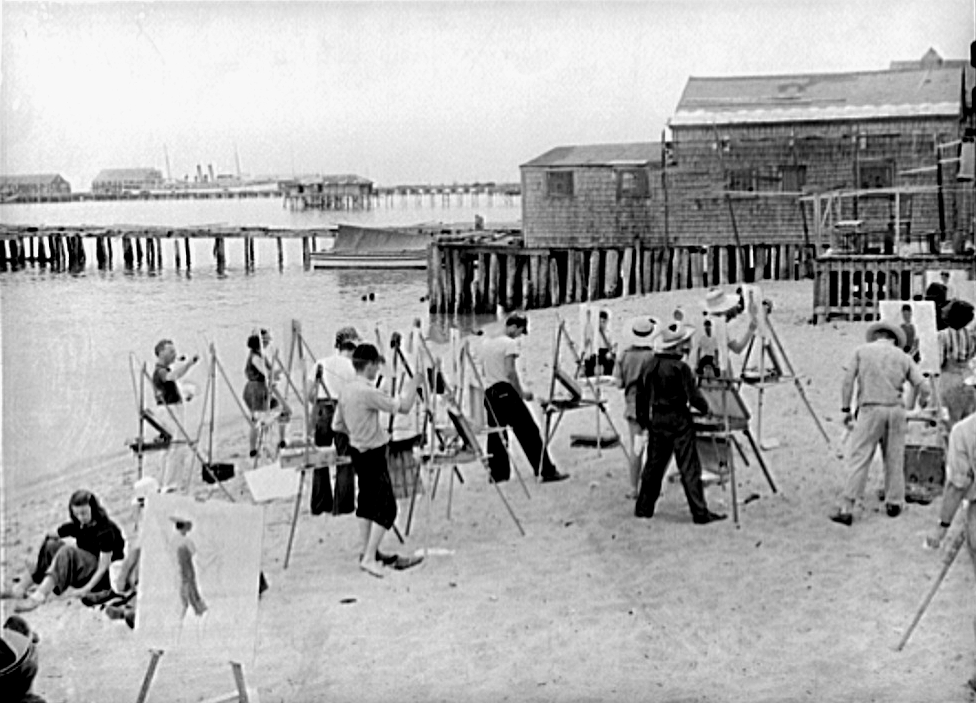 Title: Art class. Provincetown's reputation as an art center provides ample income for several art schools. Outdoor classes are likely to pop up anywhere. Massachusetts. Medium: 1 negative : safety ; 3 1/4 x 4 1/4 inches or smaller. Call Number: LC-USF34- 012743-D [P&P] Repository: Library of Congress Prints and Photographs Division Washington, DC 20540 USA Notes: Title and other information from caption card. LOT 1257 (Location of corresponding print). Transfer; United States. Office of War Information. Overseas Picture Division. Washington Division; 1944. More information about the FSA/OWI Collection is available at: Rights Advisory: No known restrictions. For information, see U.S. Farm Security Administration/Office of War Information Black & White Photographs